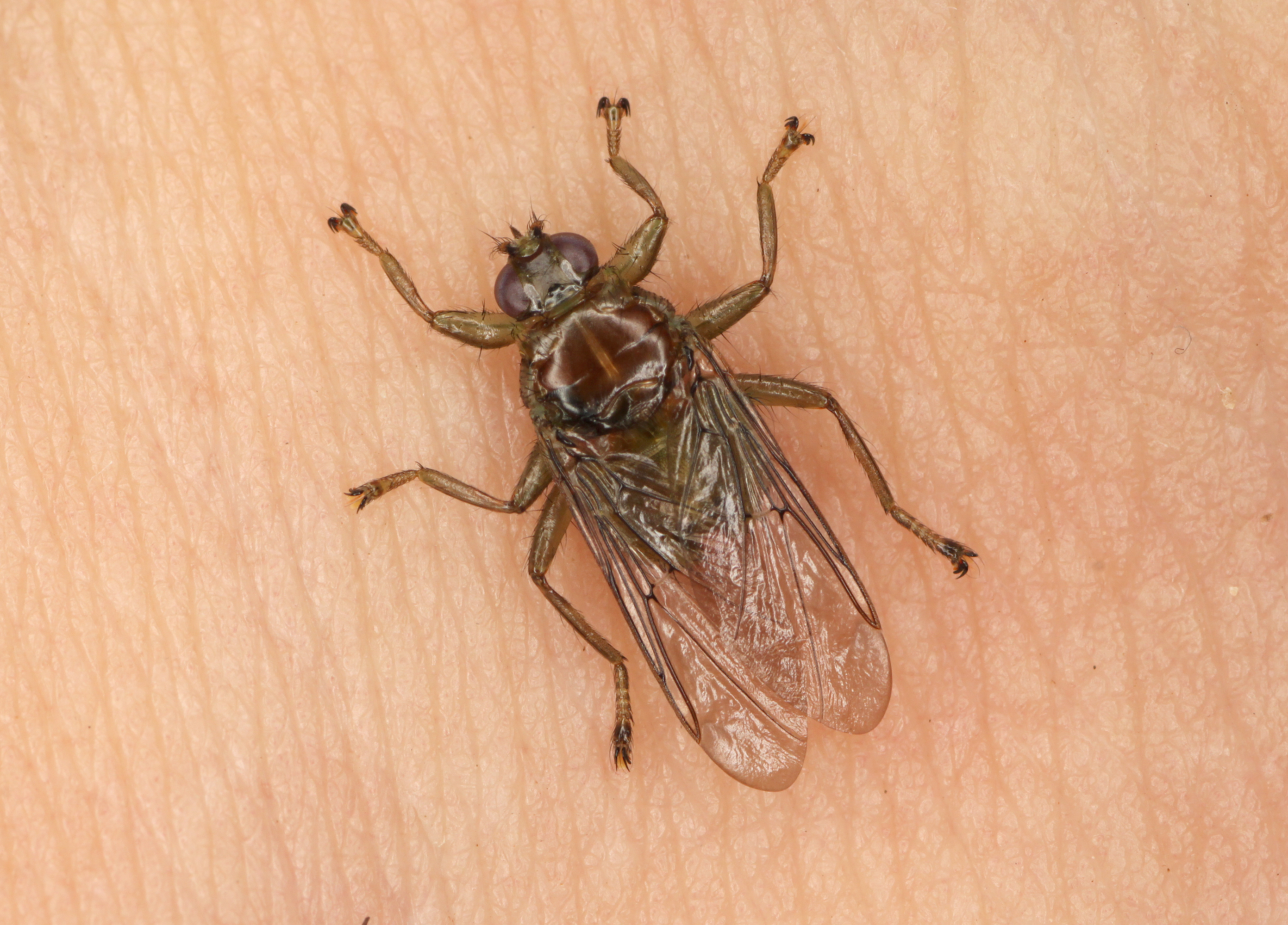 Bird Louse Fly, Ornithomya avicularia, Family: Hippoboscidae, Location: Germany, Ulm, Gögglingen